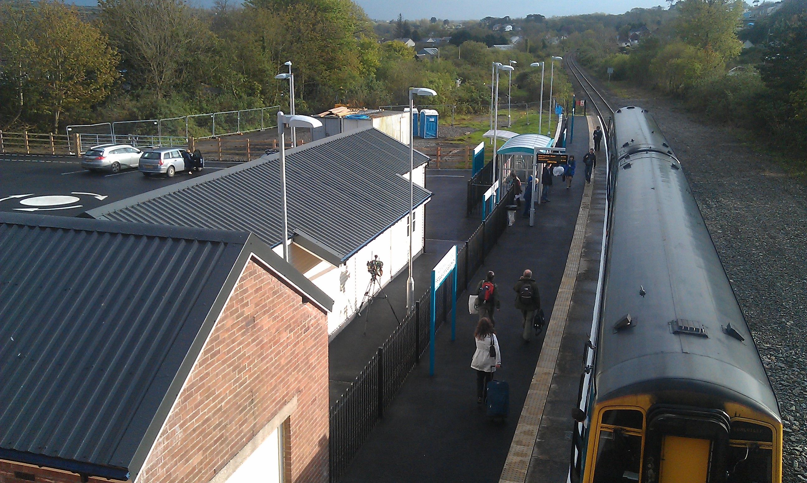 The first returning 'commuter' train with passengers departing from Carmarthen for 48 years, on the day on the station reopening 14-05-2012.